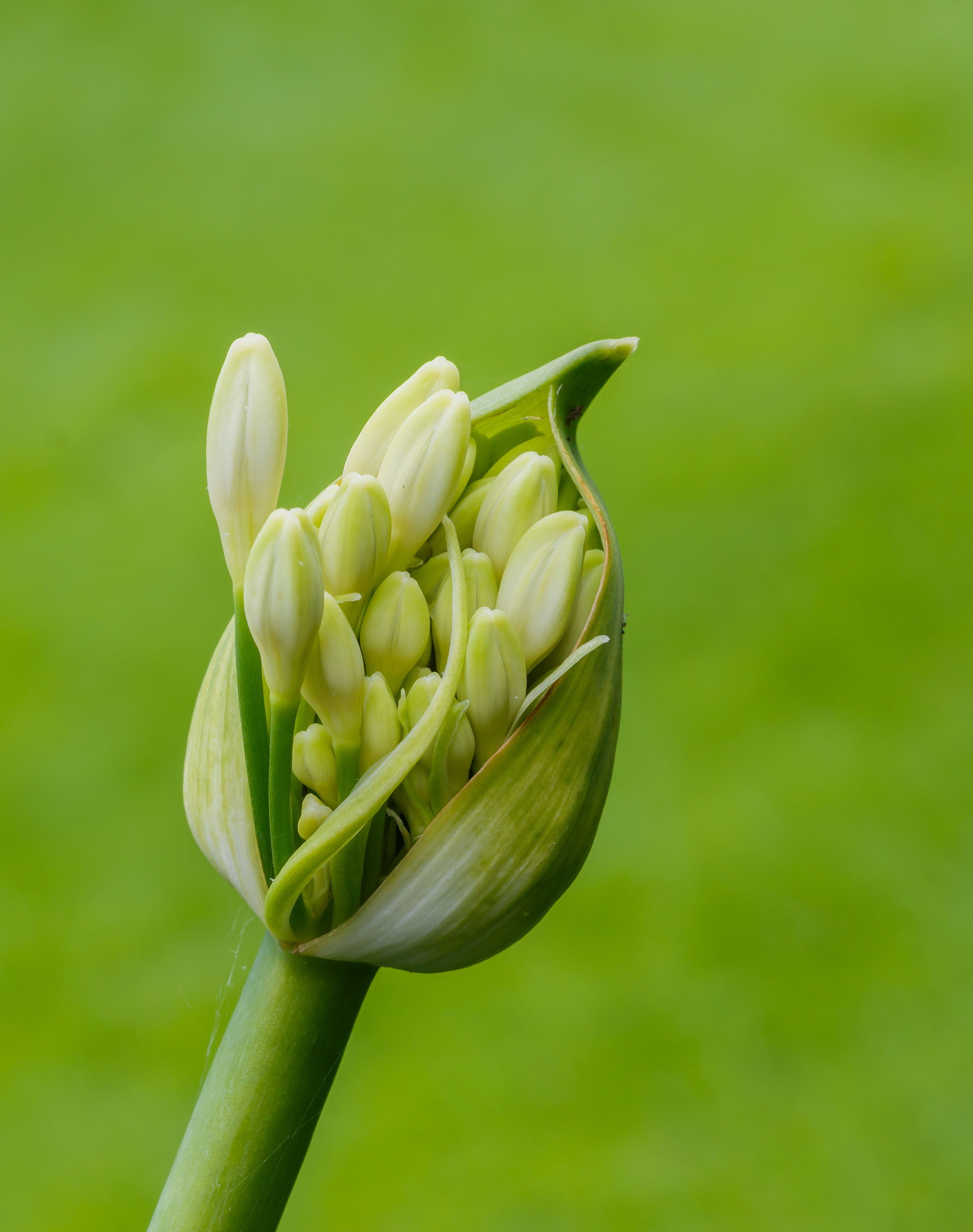 Agapanthus 'White Heaven', understated beauty of budding flower bud. Location, Tuinreservaat Jonkervallei in the Netherlands.